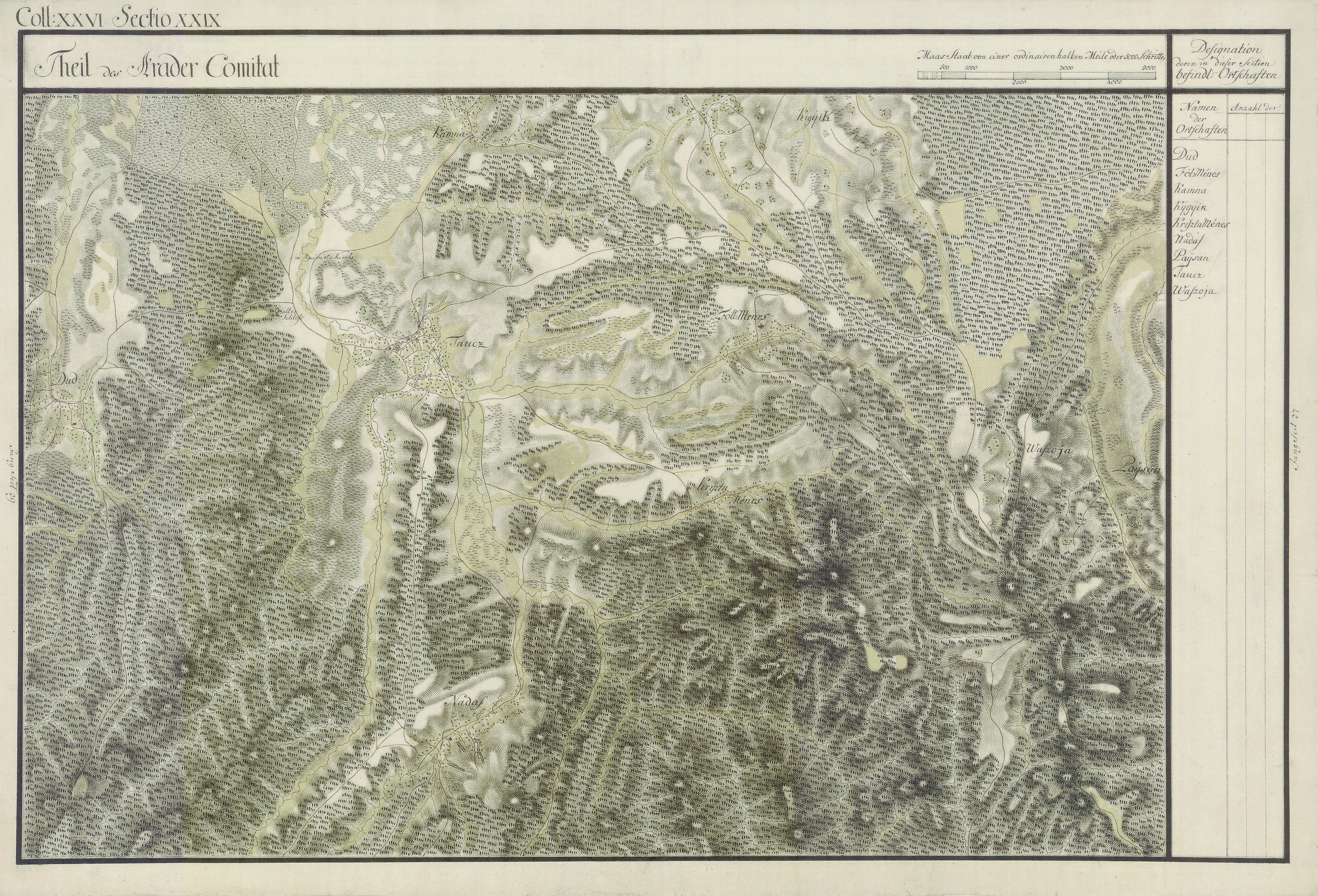 Arad County, 1782-85. Josephinische Landesaufnahme pg.26-29